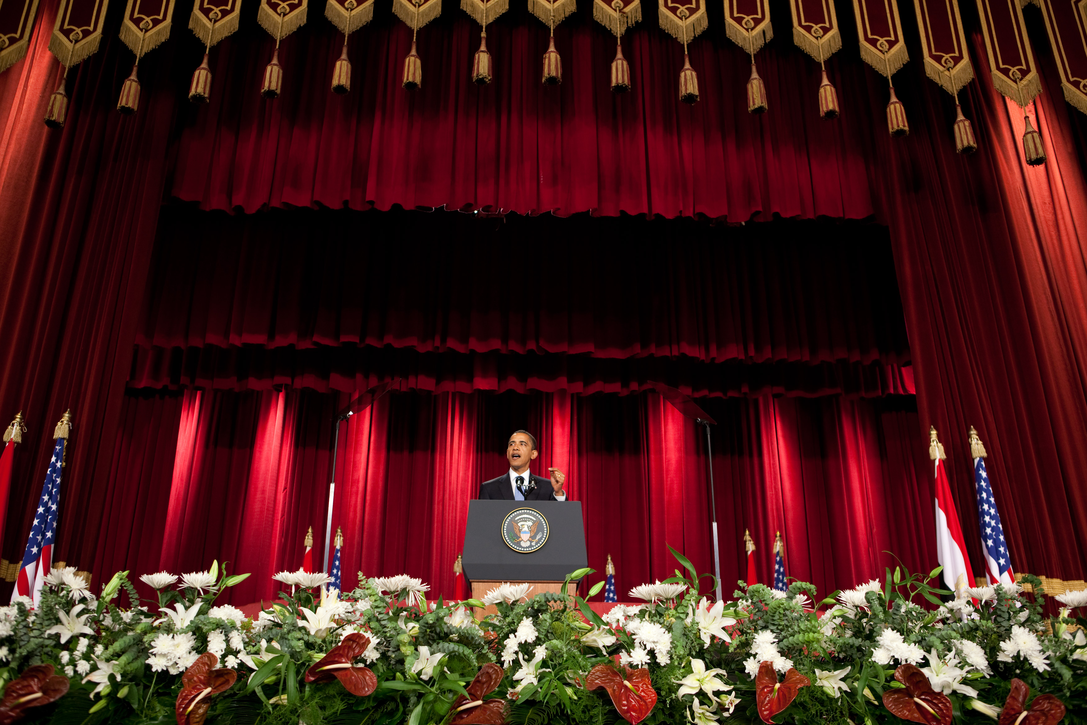 President Barack Obama speaks at Cairo University in Cairo, Thursday, June 4, 2009. In his speech, President Obama called for a 'new beginning between the United States and Muslims', declaring that 'this cycle of suspicion and discord must end'. (Official White House Photo by Chuck Kennedy)